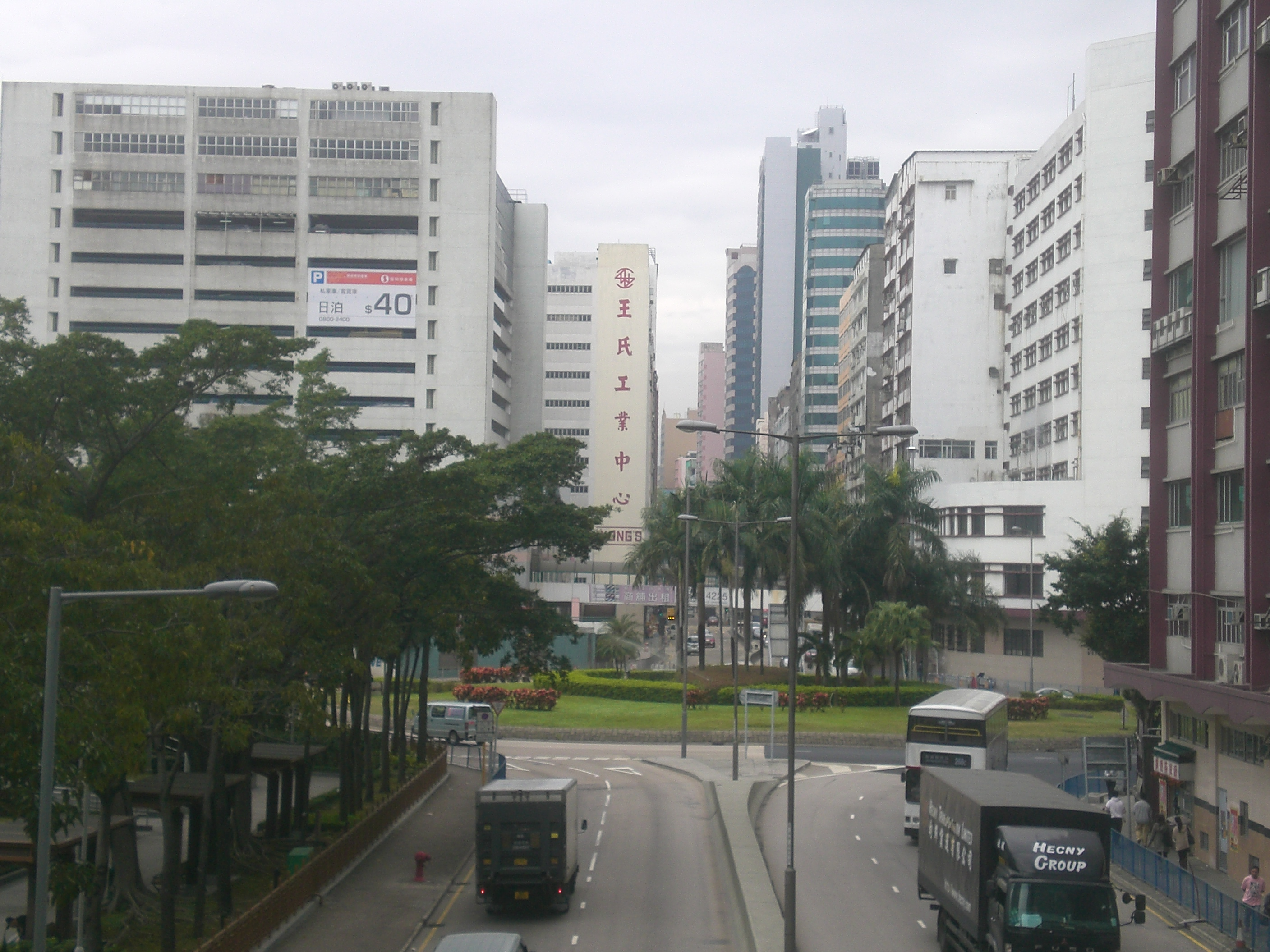 zh:2010年zh:觀塘區 偉業街